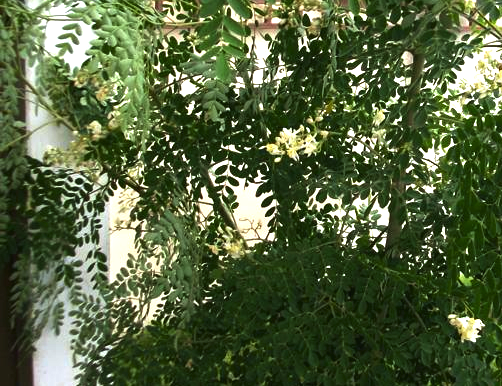 A moringa plant in a garden in Ghana.